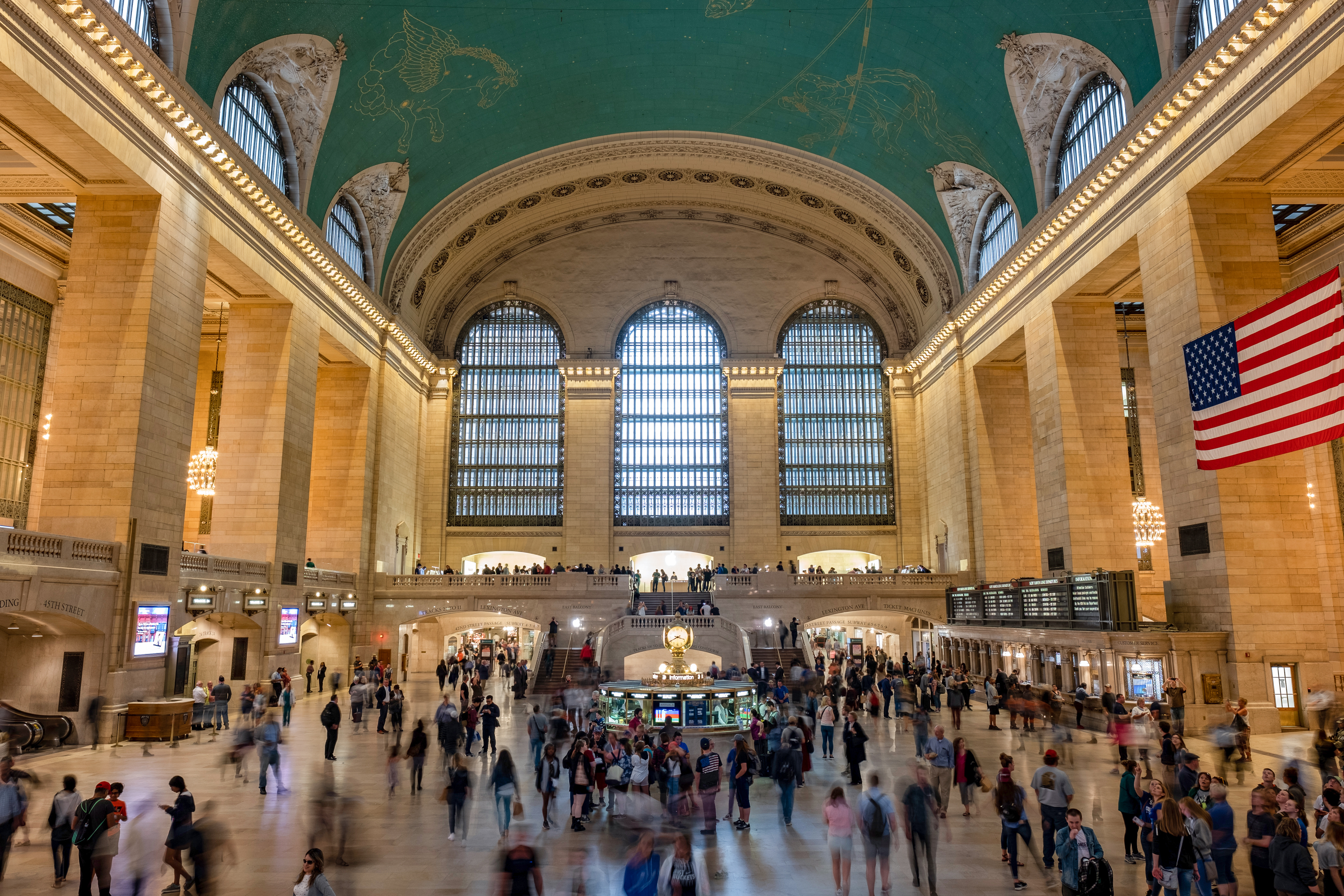 View of Grand Central Station - New York City